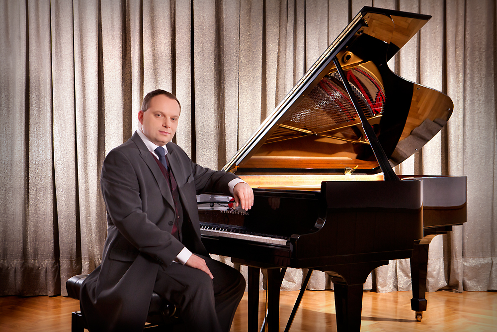 Maciej Kieres